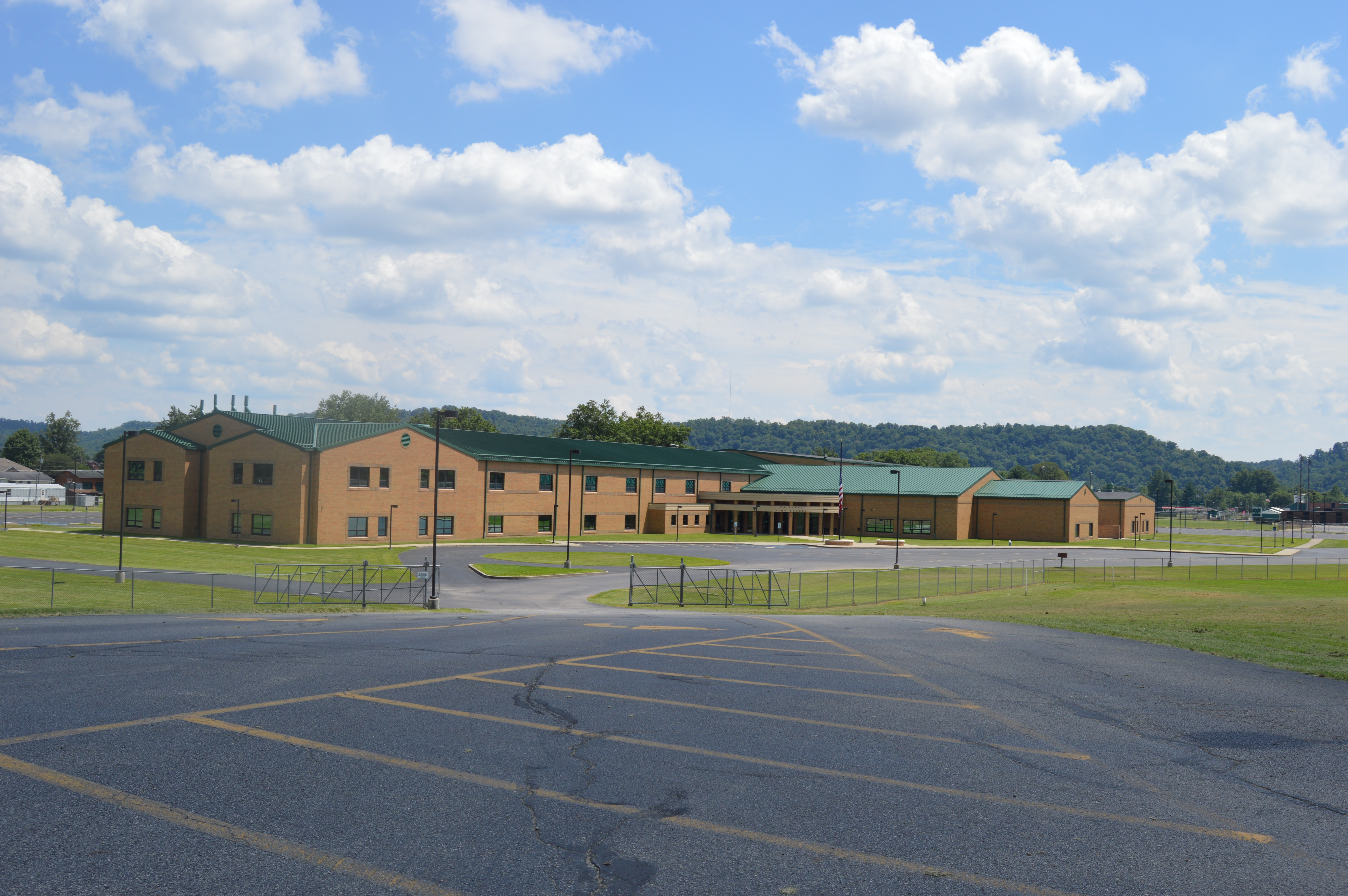 View from the north of Fairland High School, located at 812 County Road 411 east of Proctorville in Rome Township, Lawrence County, Ohio, United States.